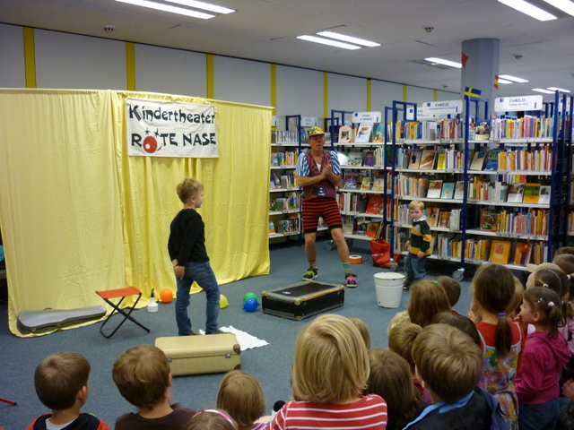 Kindertheater in der Stadtbibliothek Freiberg